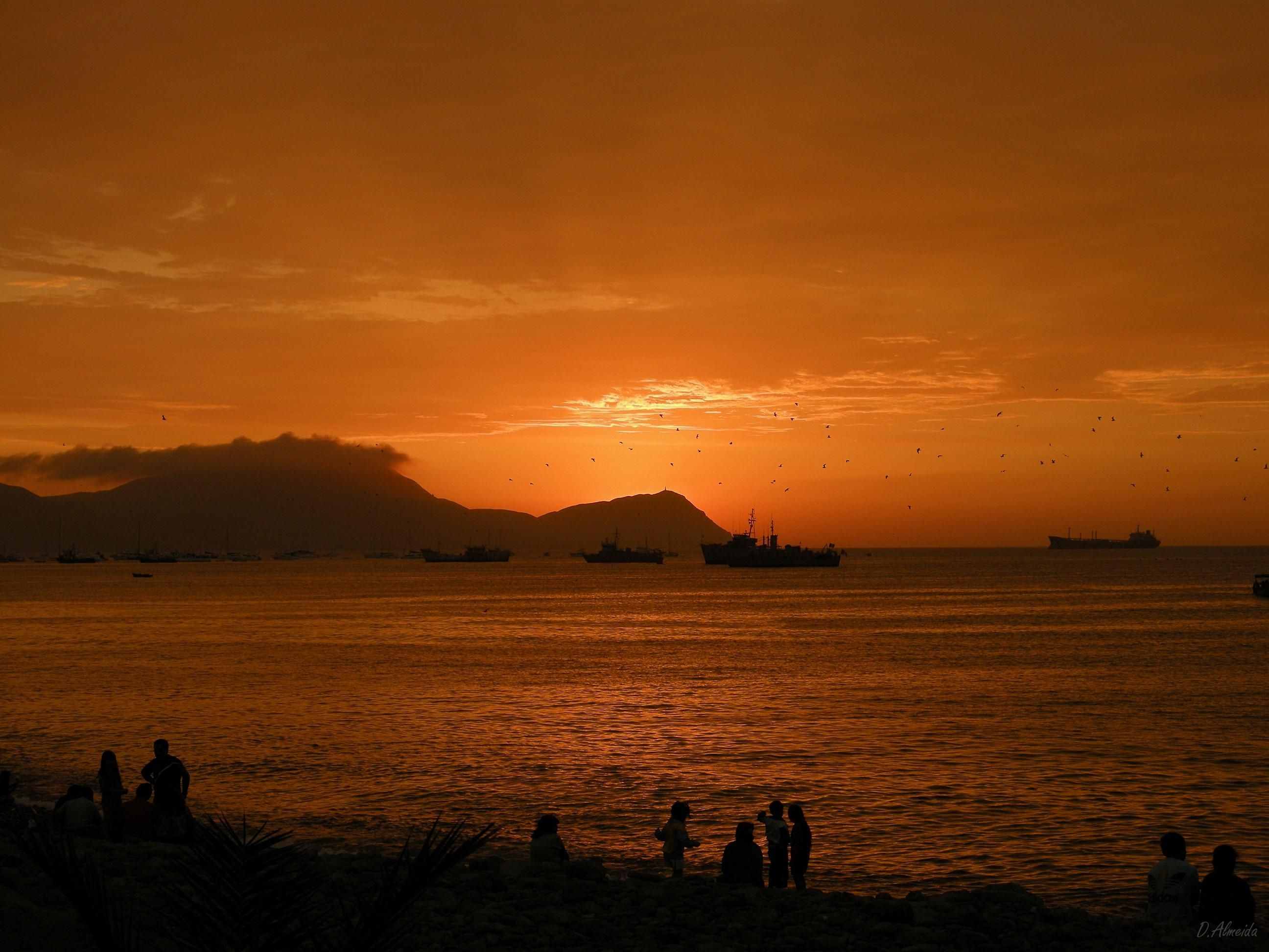 Sunset at one of the stone beaches of La Punta, in El Callao, the port of Lima, Peru. At the bottom, the sun hiding behind the San Lorenzo Island.